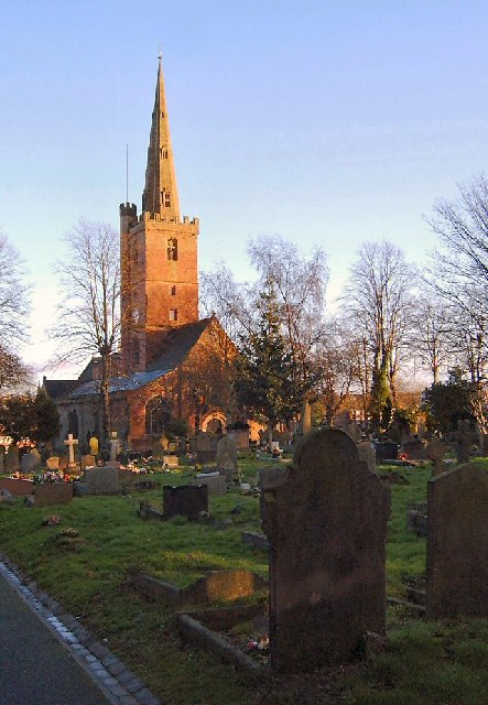 St John the Baptists Church Halesowen. Photographed from the Church Yard 9/1/2004